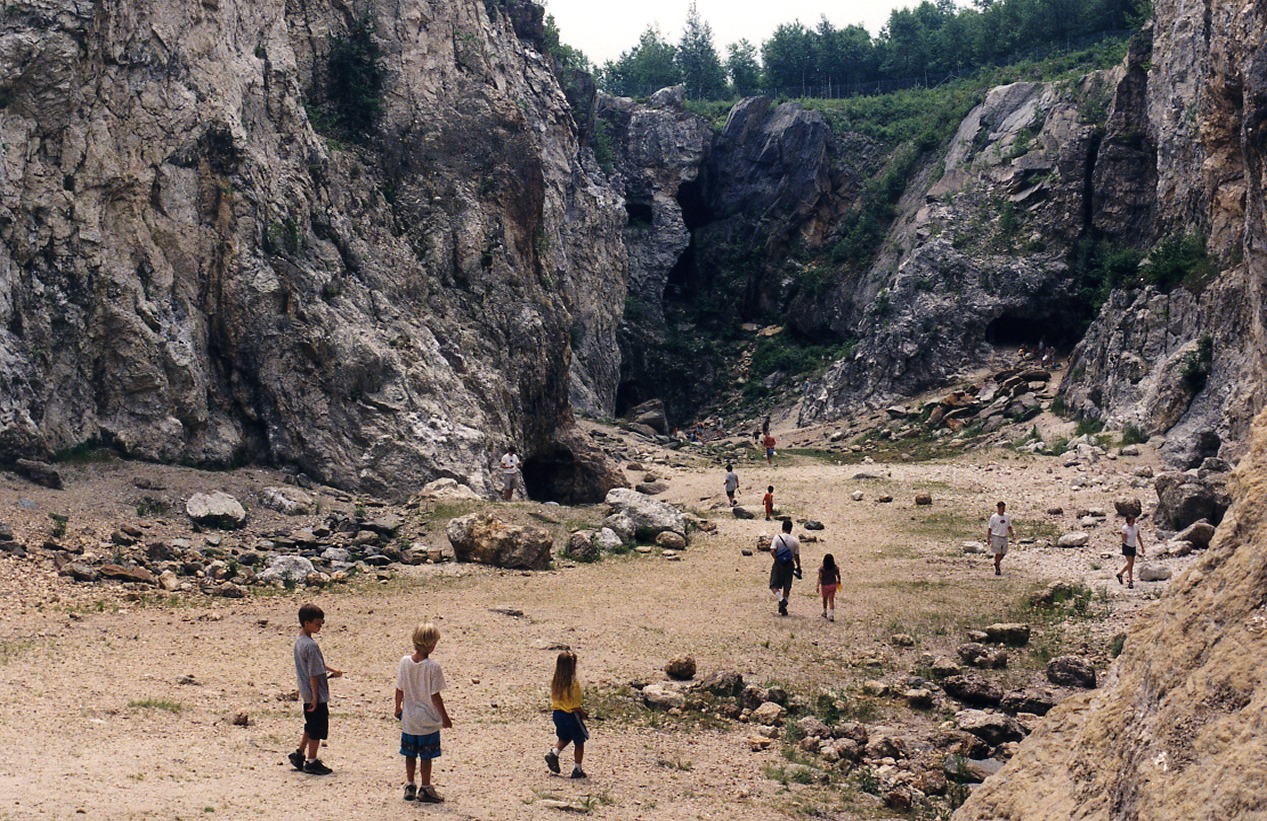 Looking down into Ruggles Mine